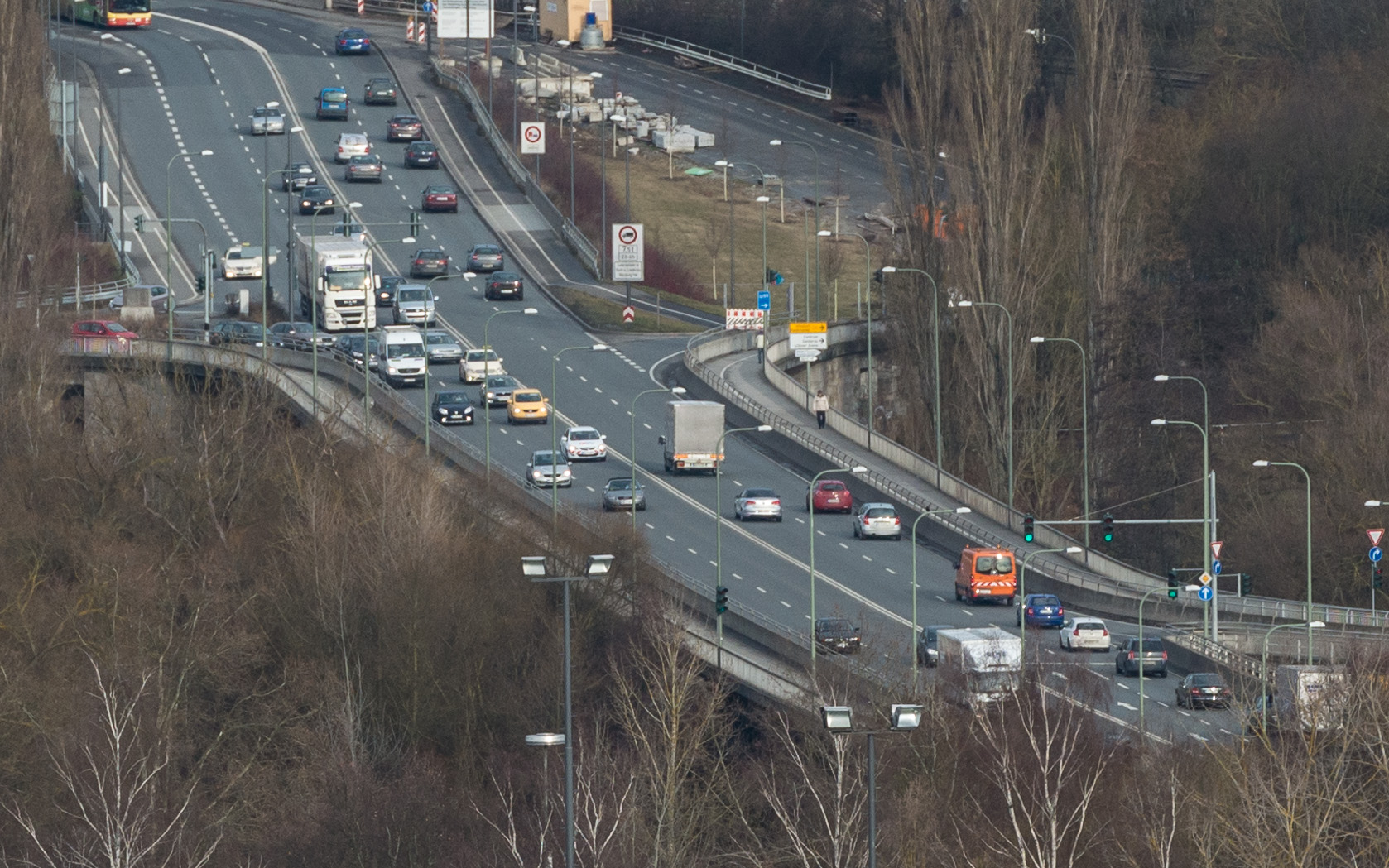 The Konrad-Adenauer-Brücke seen from the hills surrounding Würzburg-Heidingsfeld